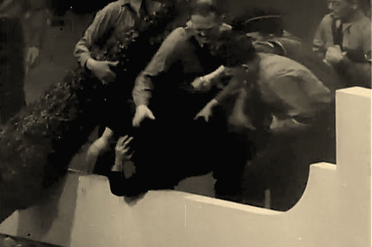 German American Bund rally New York, Madison Square Garden, Febr 1939; from "The Nazis Strike" 1943